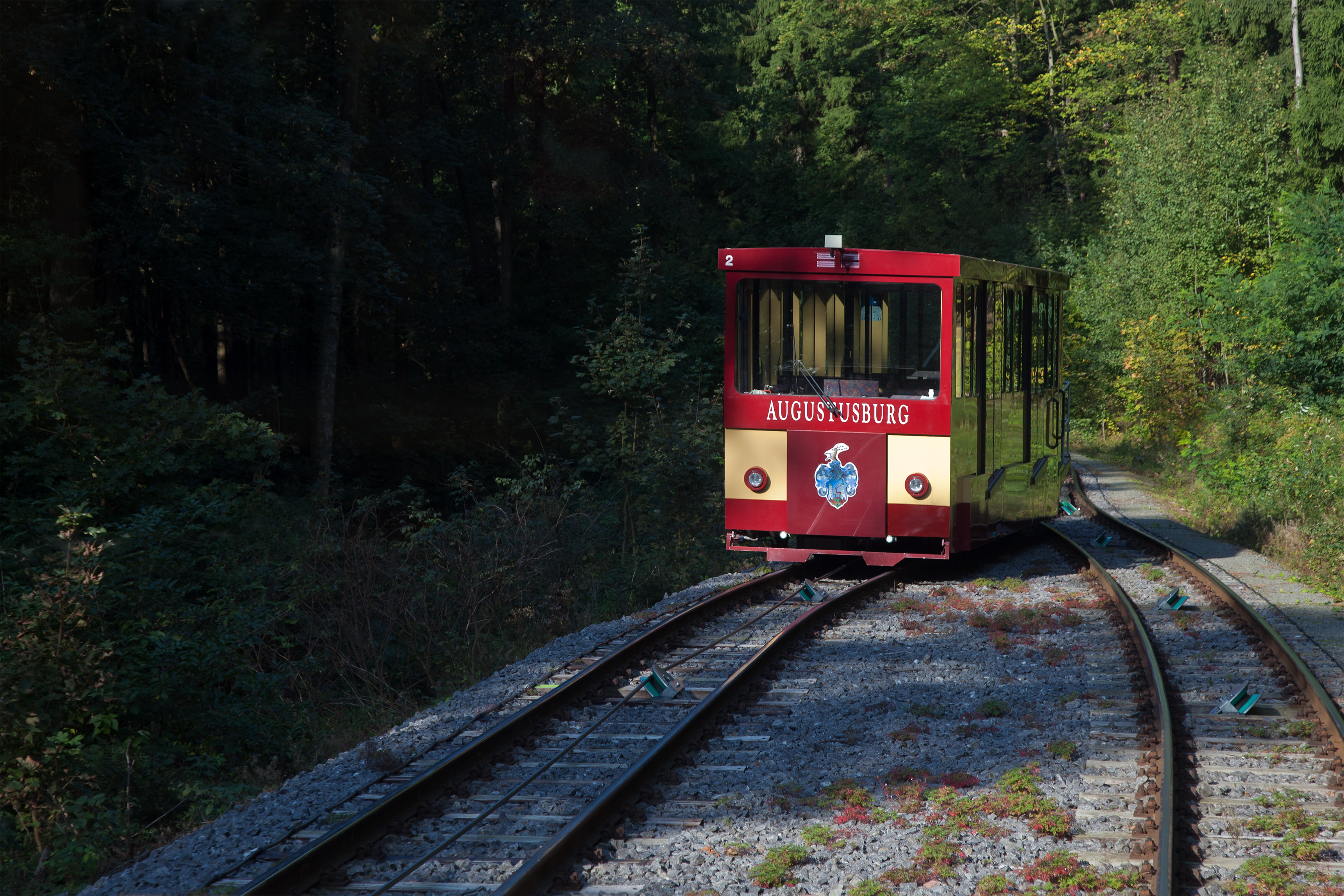 Augustusburg Cable Railway. For more information, see Wikipedia article Augustusburg Cable Railway.